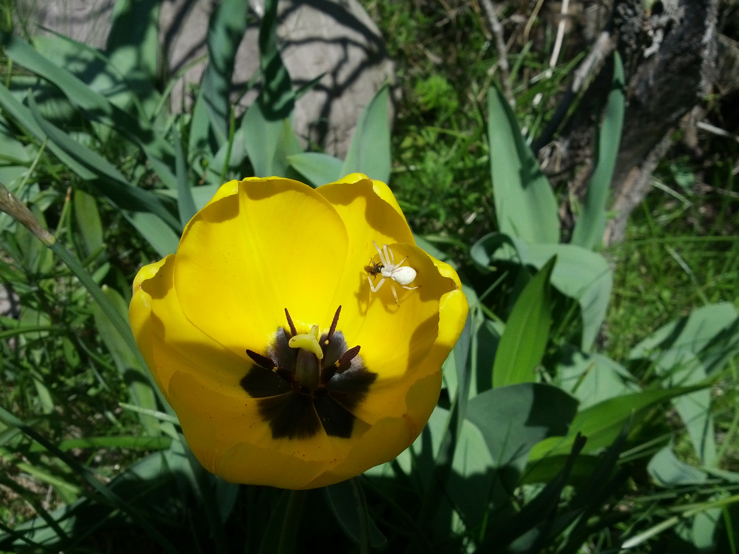 A crab spider on Gotland, Sweden